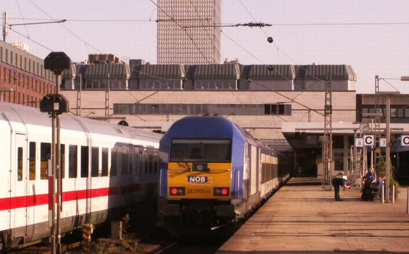 photographed by me